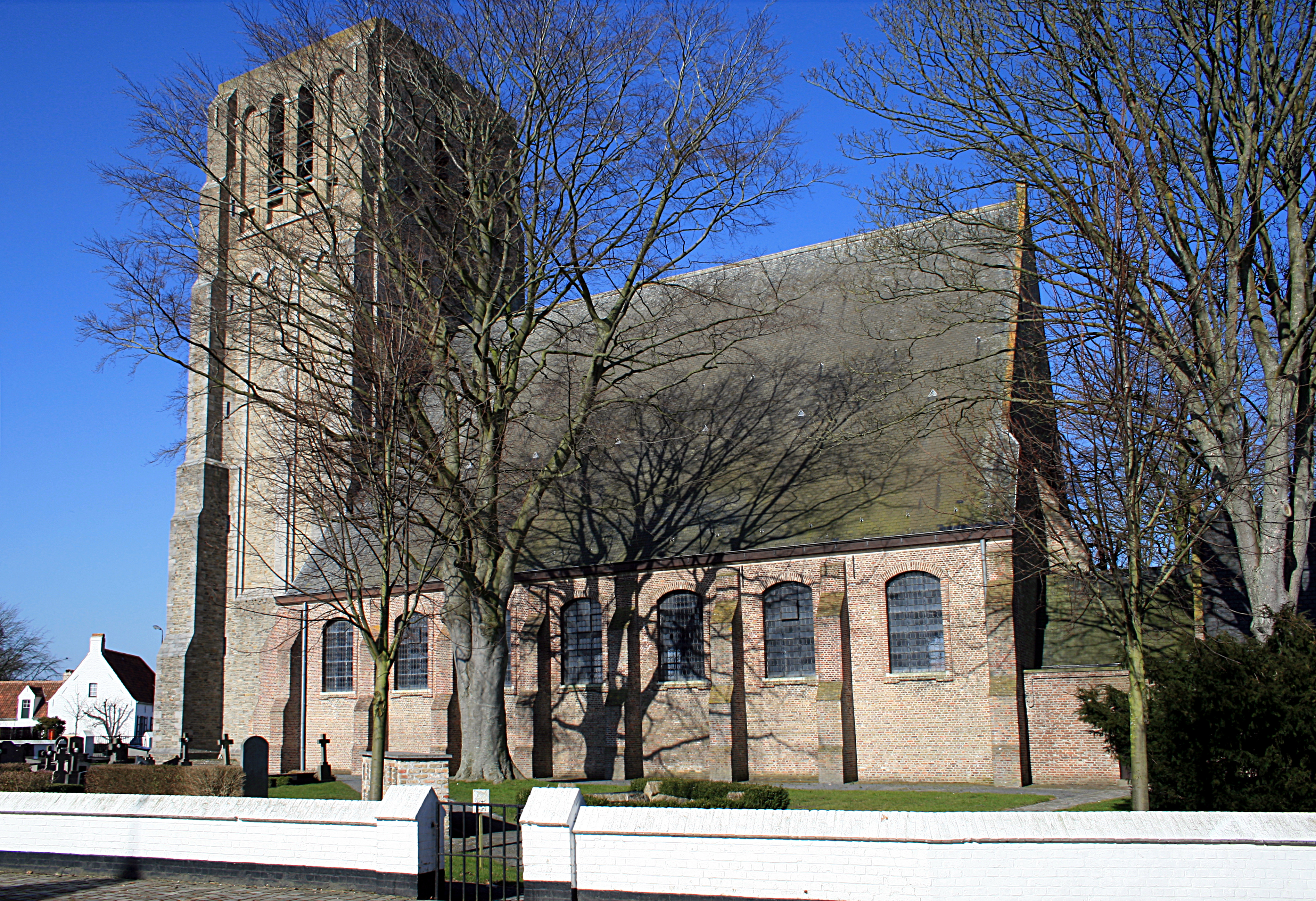 Oostkerke (Damme) (Belgium), the church of Saint Quentin.